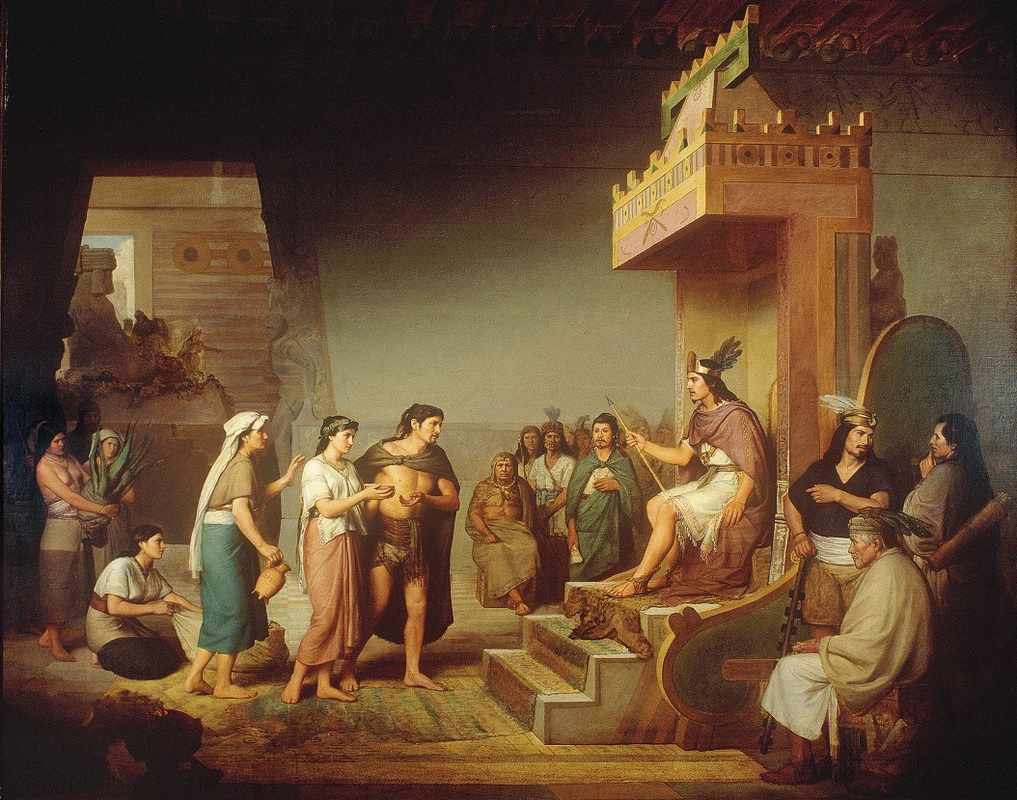 Discovery of Pulque by Toltecs. Painting about the myth